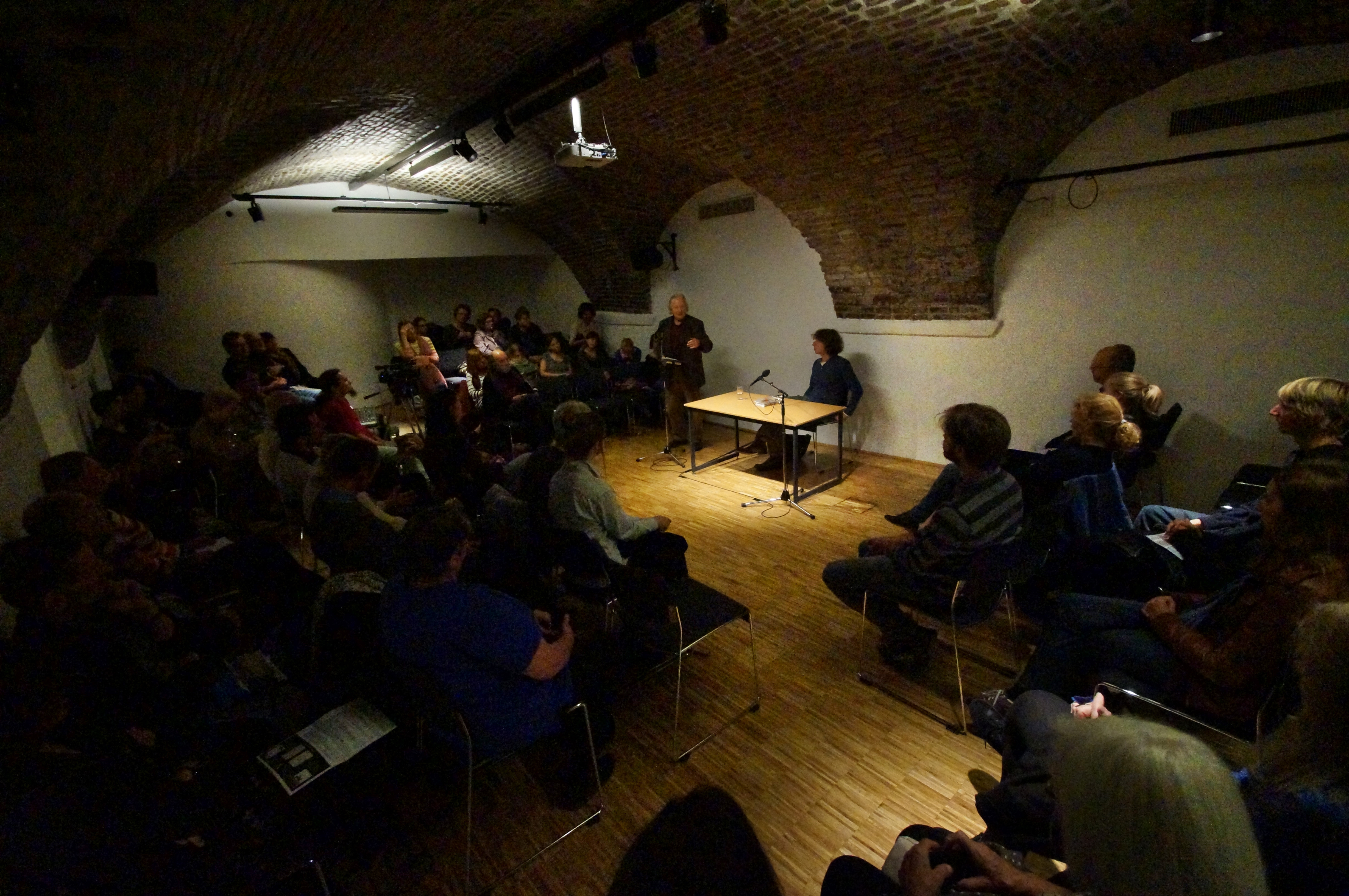 Stangl is presented by long-term 'Alte Schmiede' official Kurt Neumann (standing).